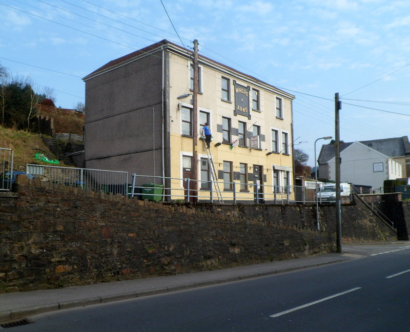 Miners Arms, Pontrhydyfen. The pub is in a 3-storey building in Lewis Street, viewed from Queen Street. It is the home base of the village rugby club.